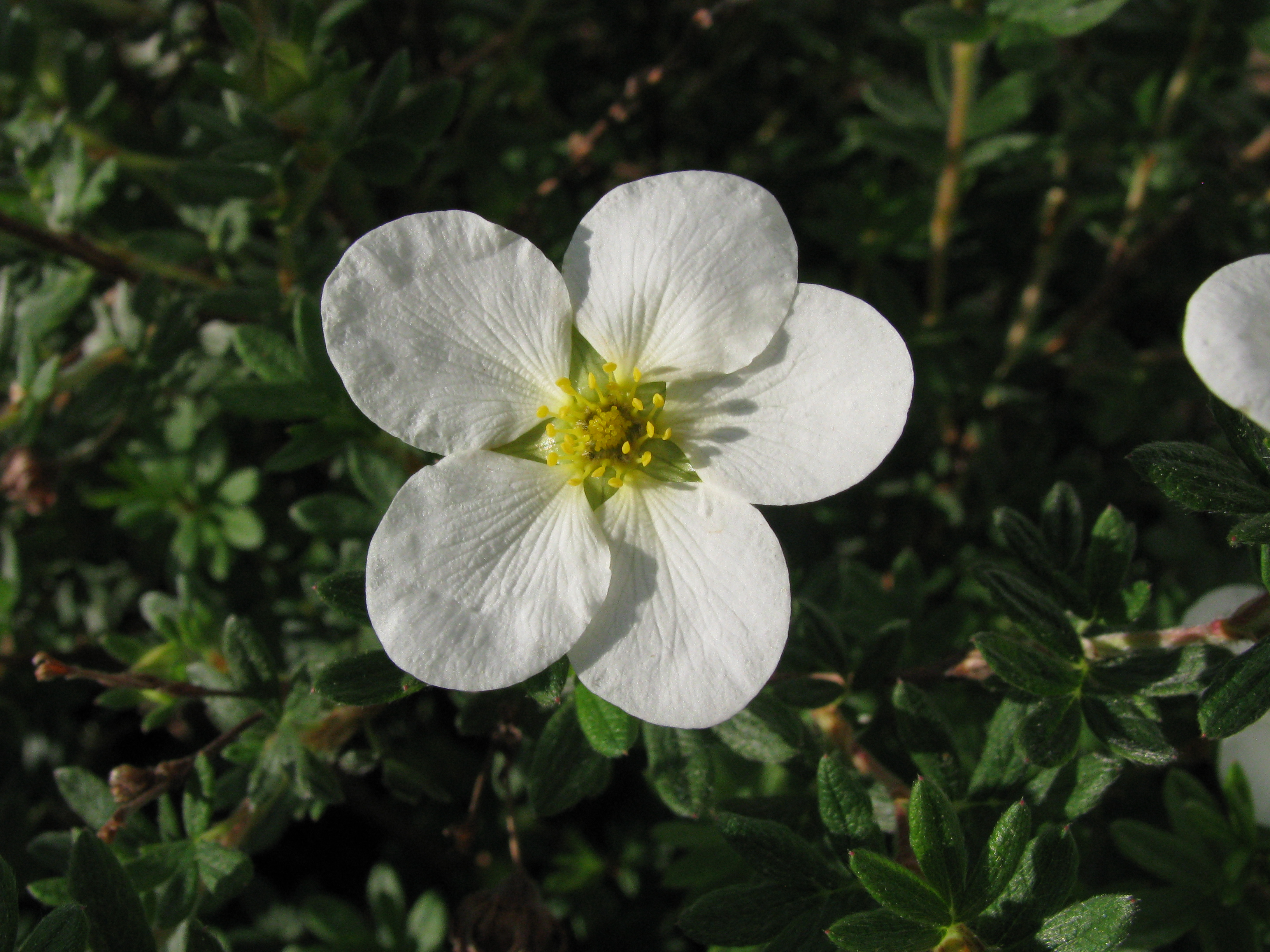 A flower on a Dasiphora fruticosa en , commonly known as a Shrubby Cinquefoil, cultivar 'Mckay's White', growing in New Hampshire.